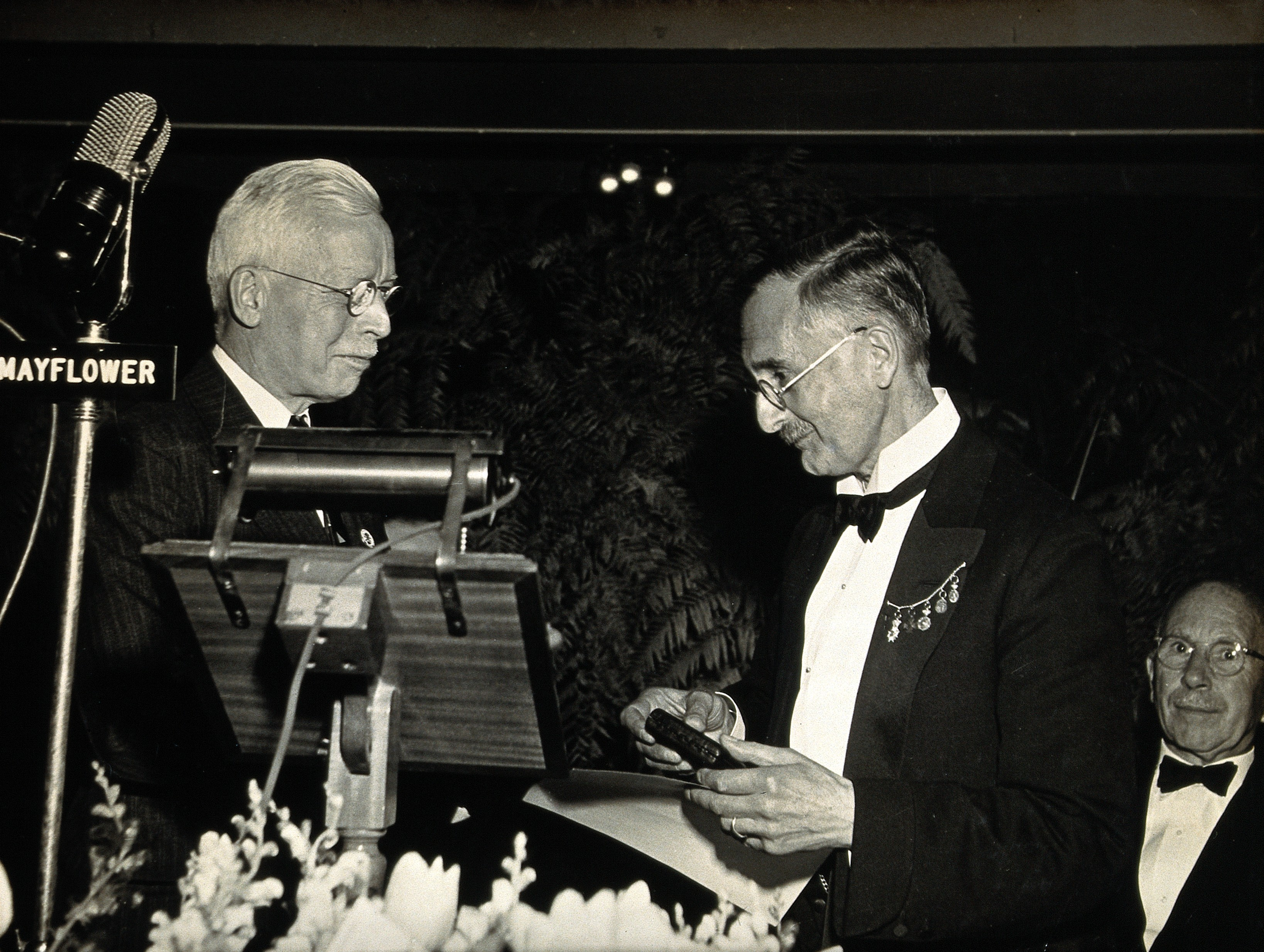 N.H. Swellengrebel (right) receiving the Laveran Prize from Rolla Dyer. Photograph, 1948. Iconographic Collections Keywords: portrait photographs